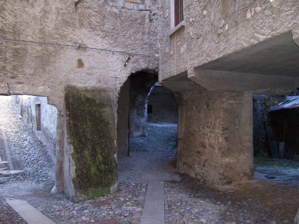 Streets in Nadro, Val Camonica, Italia